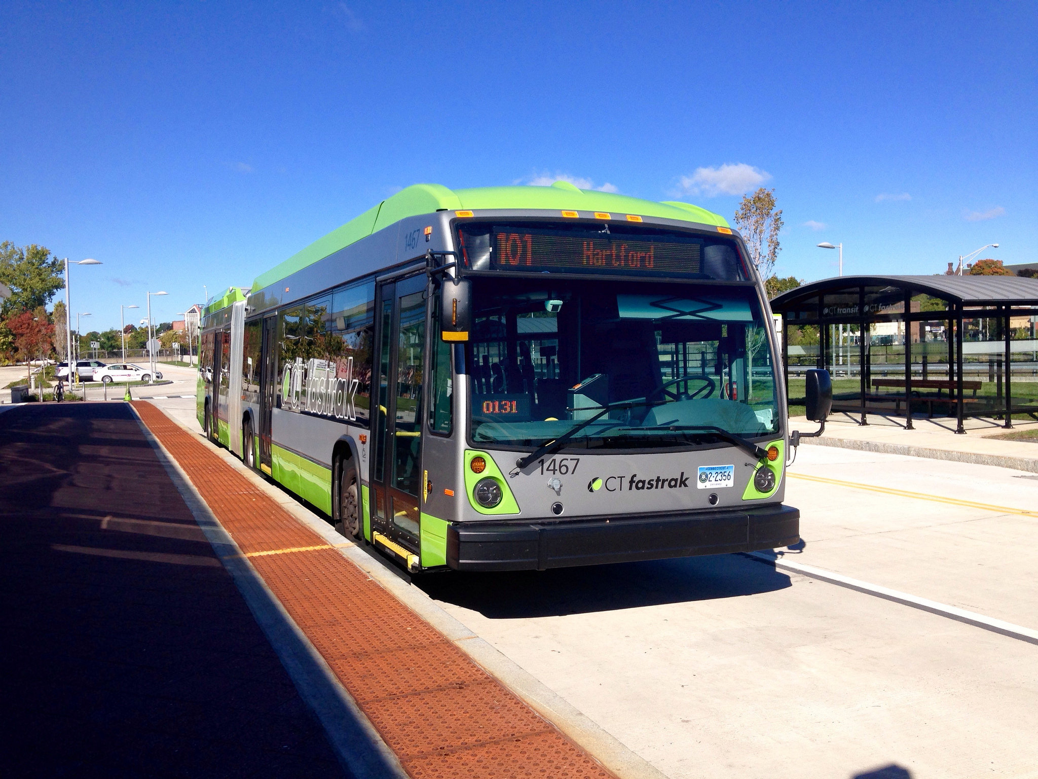 CTtransit 2014 NovaBUS LFX #1467 branded for CTfastrak on the 101 to Hartford